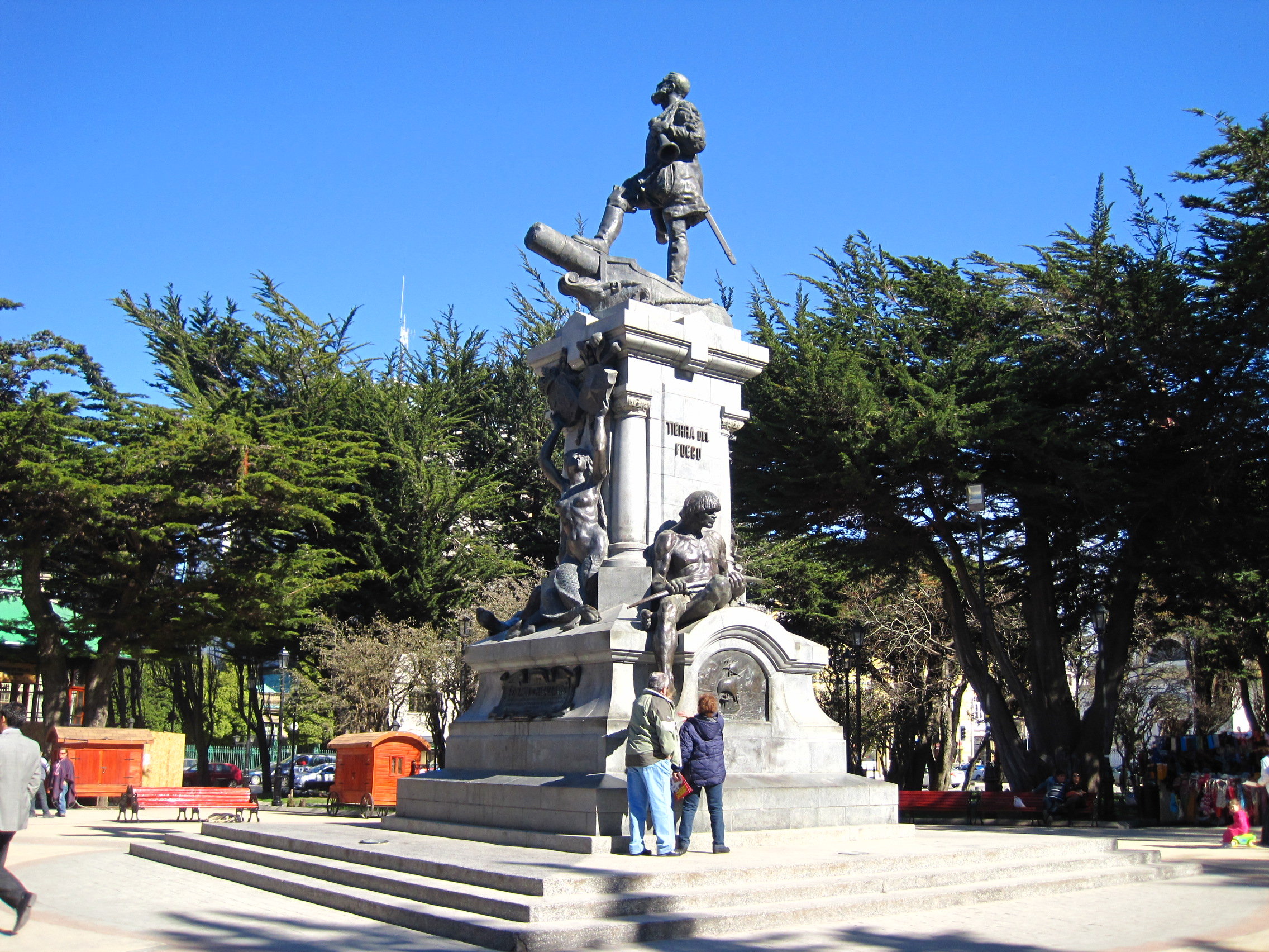 Monument to Ferdinand Magellan in Punta Arenas, Chile. Sculptor Guillermo Córdova, 1920, bronze